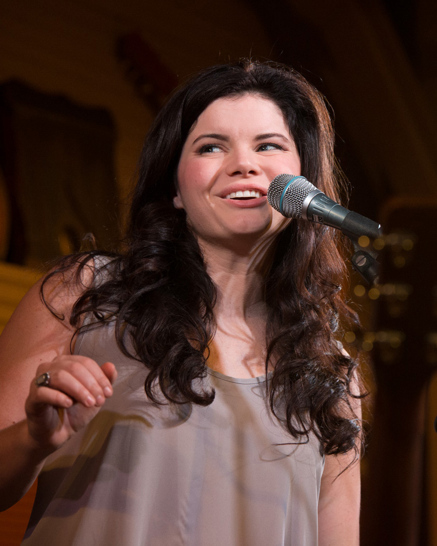 Rebecca Loebe onstage at The Blue Door listening room in Oklahoma City, 2013. Photo by Vicki Farmer